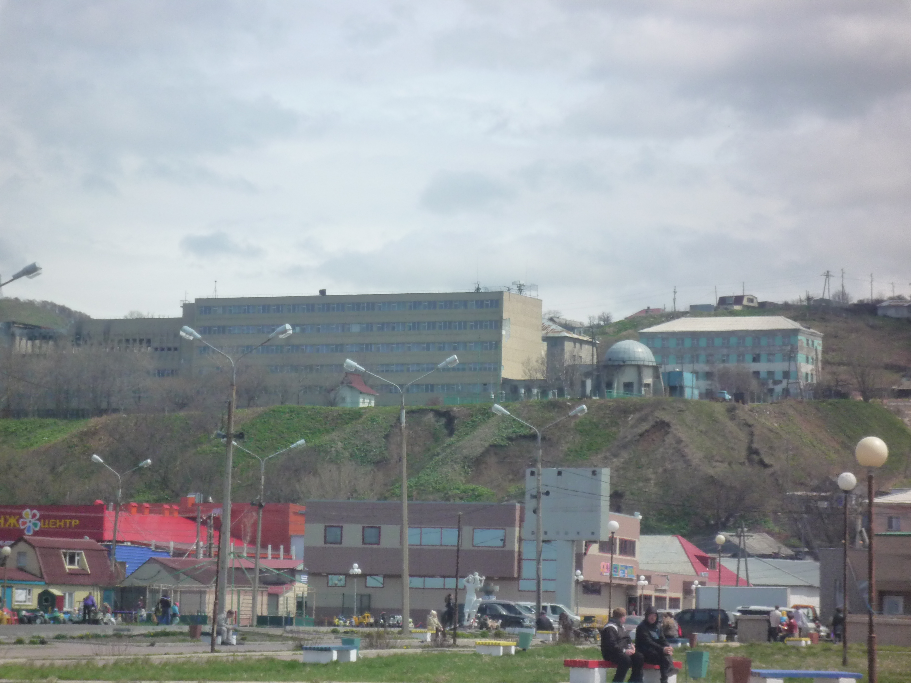 Сахалинское мореходное училище